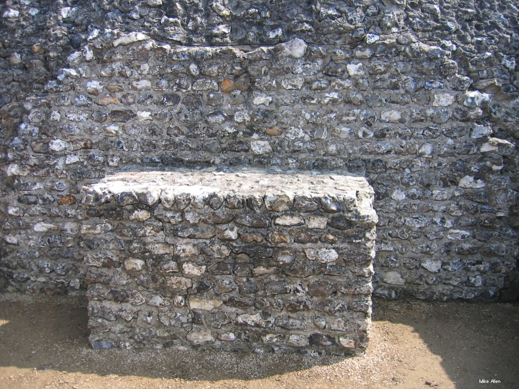 Photograph of the altar at the ruins of the cathedral at Old Sarum in Wiltshire, England.